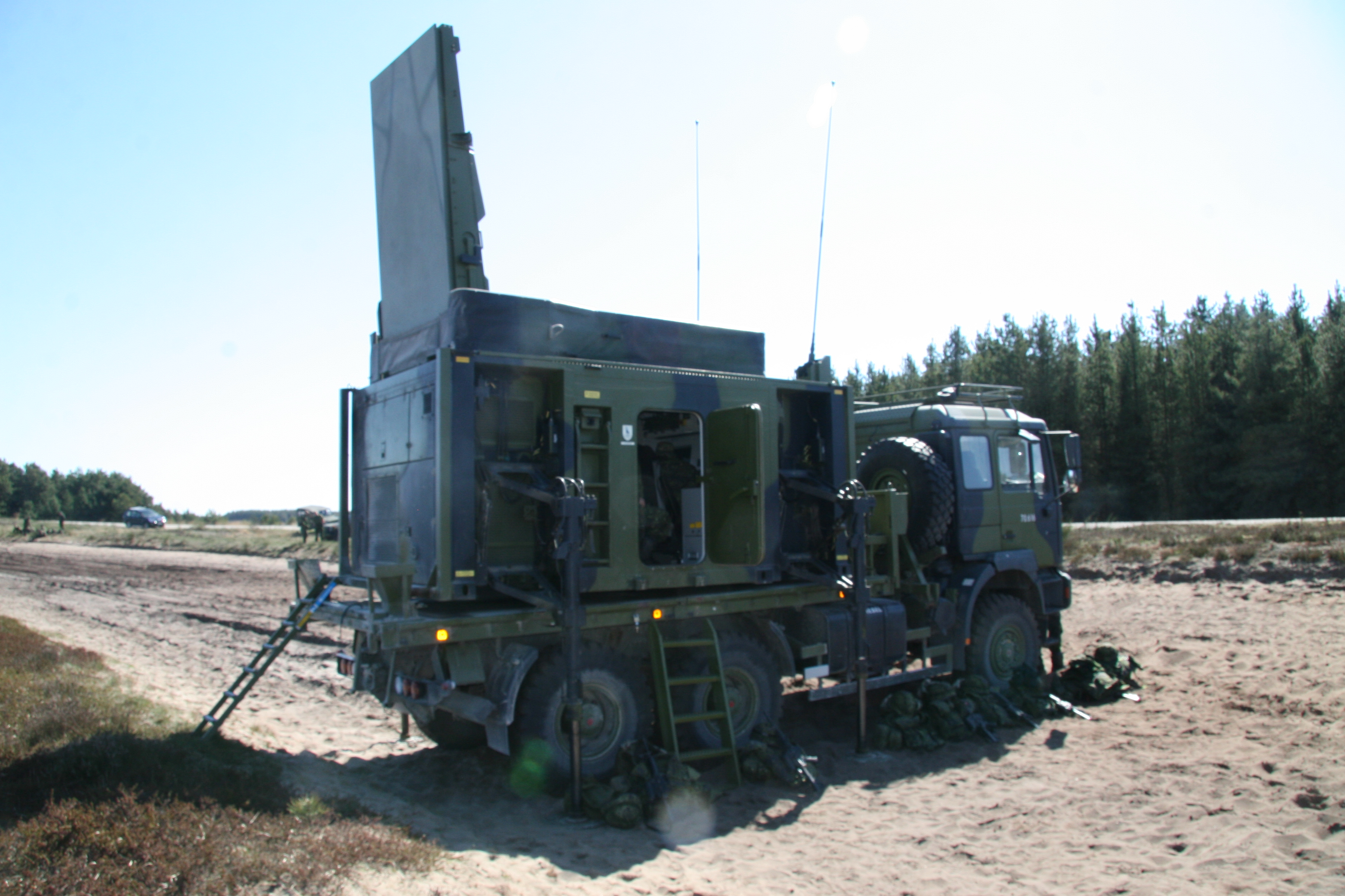 Danish ARTHUR mobile array at Borris Target RangeDansk: Artilleripejleradaren ARTHUR i Borris Skydeterræn